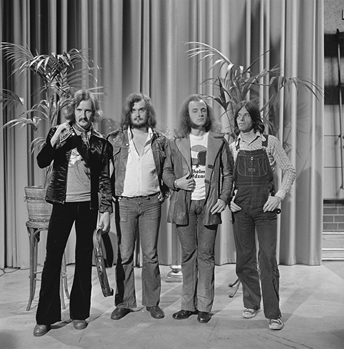 Focus in AVRO's TopPop (Dutch television show) in 1974